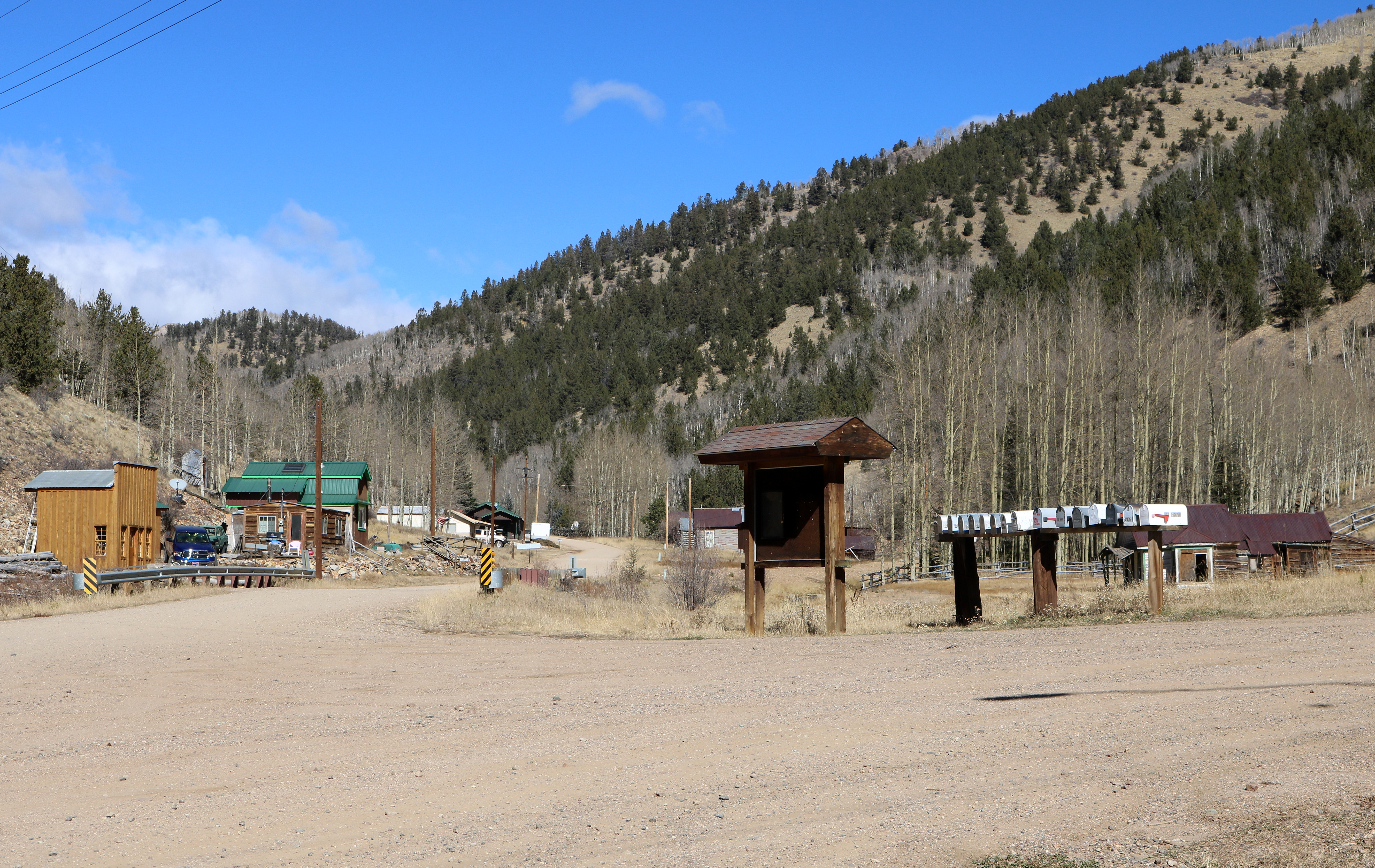 A view of the town of Bonanza, Colorado. The view is of 1st Avenue (road turning right) and Main Street (County Road LL56, the road going up the canyon). Bonanza is located in Saguache County, Colorado.